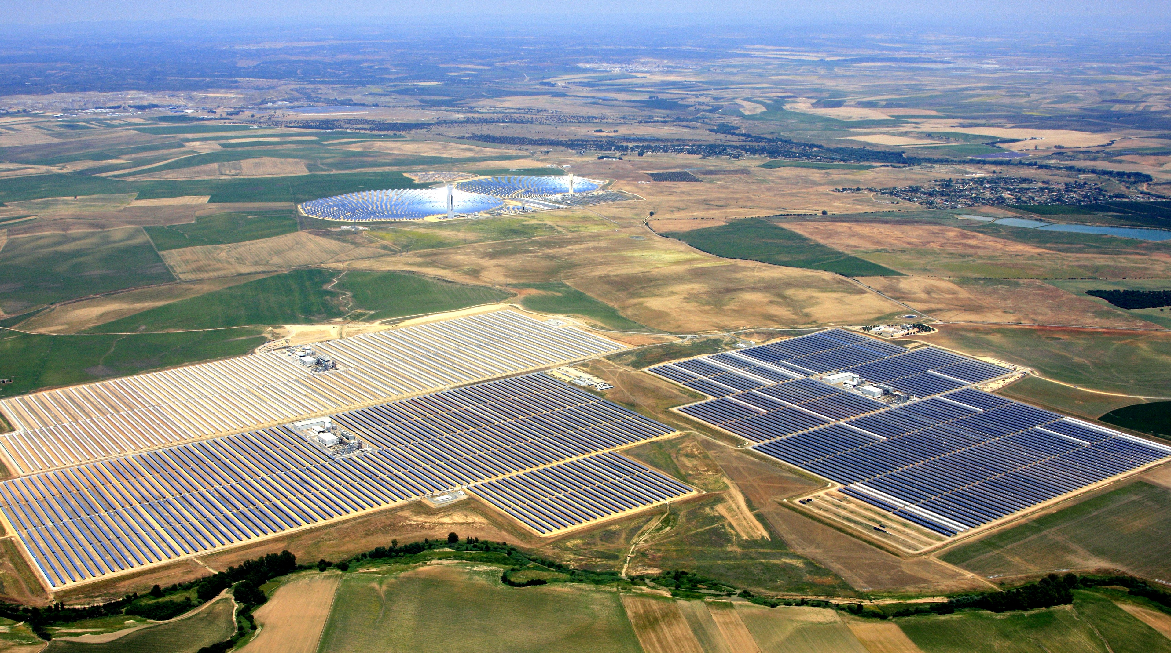 Aerial view of the unit I, III, and IV, of Abengoa Solar's Solnova Solar Power Station. The two towers and reflective mirrors in the background are the PS10 and PS20 solar power plants, also owned by Abengoa Solar. This region is also sometimes known as the Solar Platform.